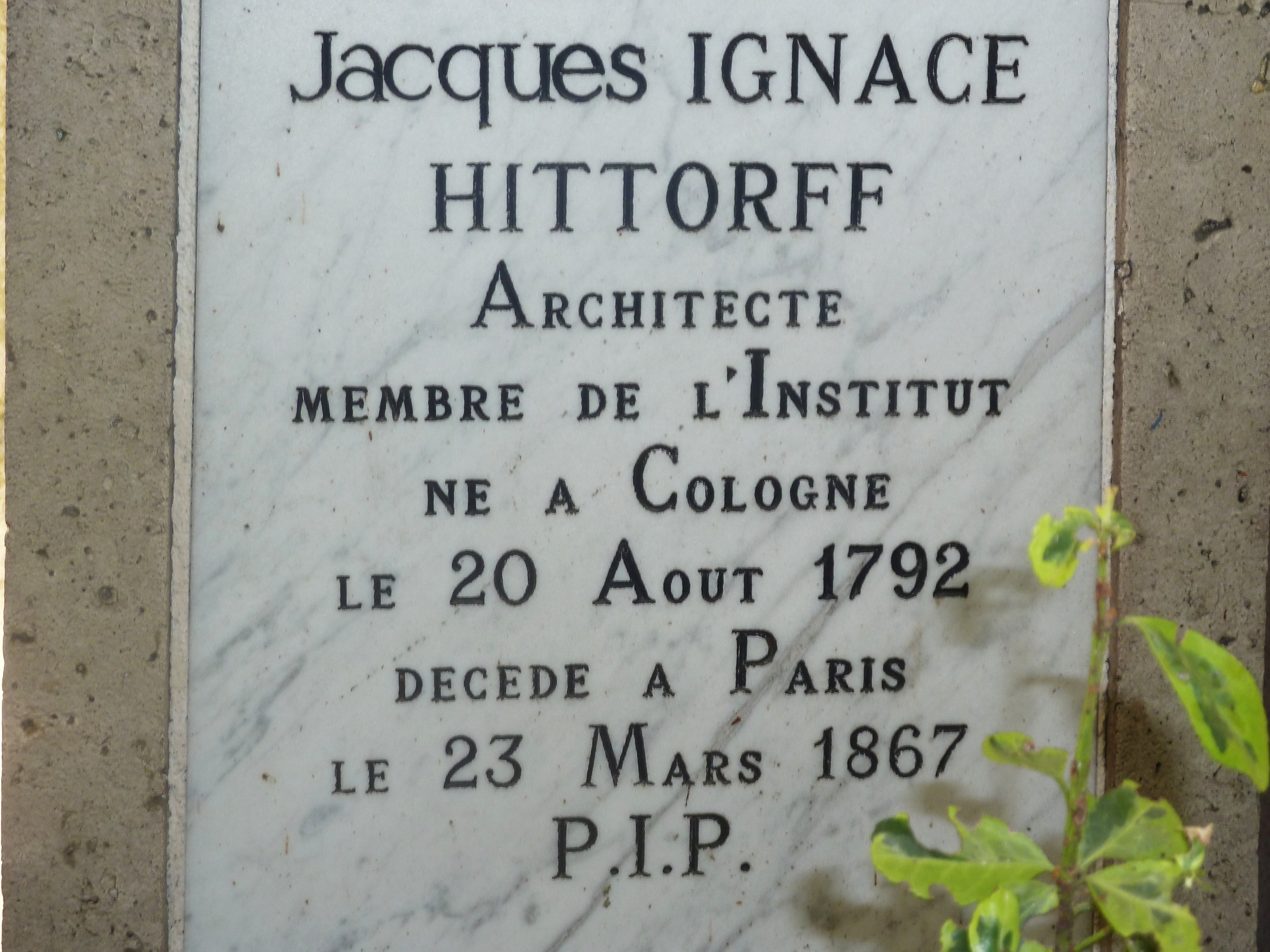 Cimetière de Montmartre - Jakob Hittorf